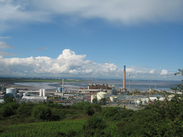 ICI, Weston Point from Runcorn Hill The vast ICI plant on the banks of the river Mersey as viewed from Weston Road on Runcorn Hill.